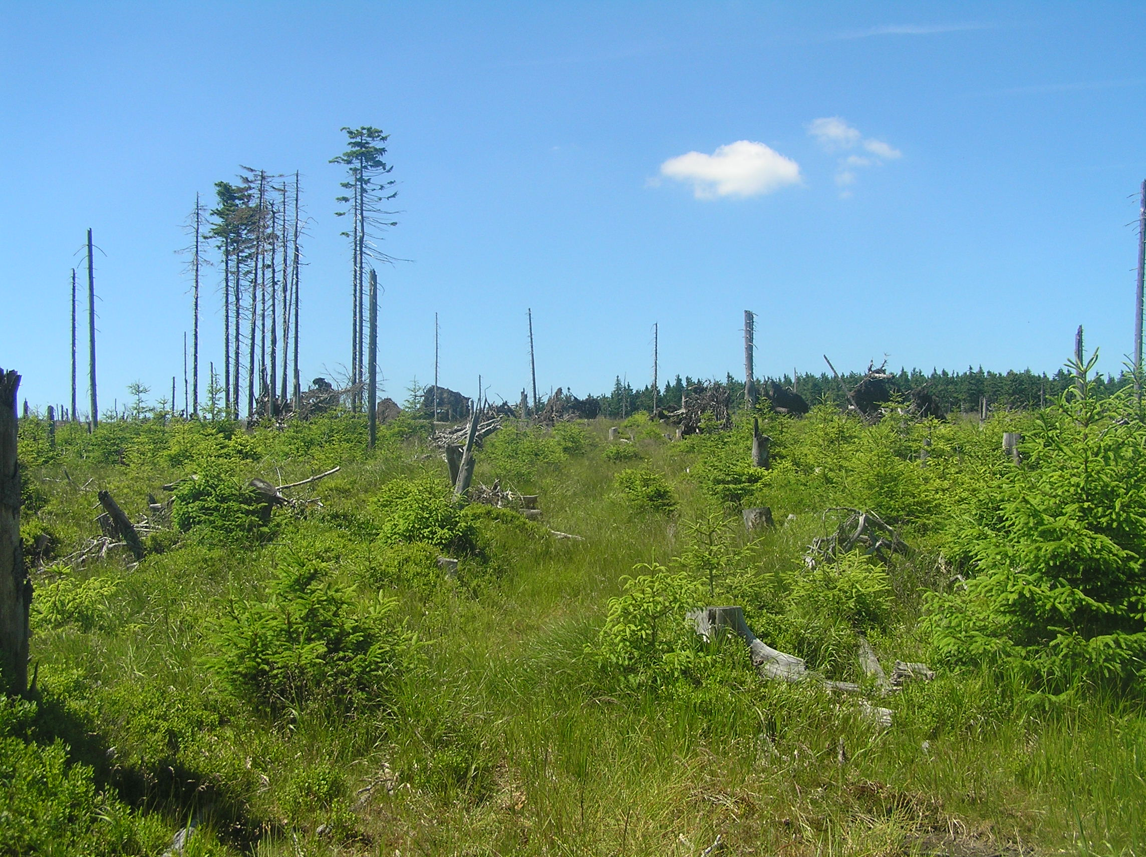 Velká Šindelná, The Králický Sněžník Mountains, Czech Republic